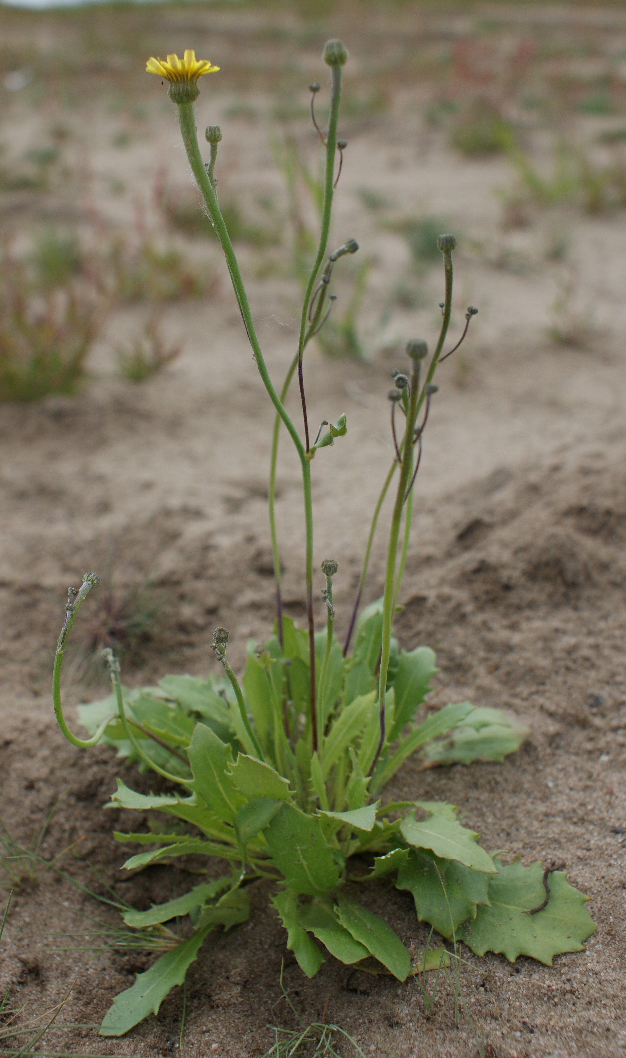 Arnoseris minima, Stepnica (NW Poland)